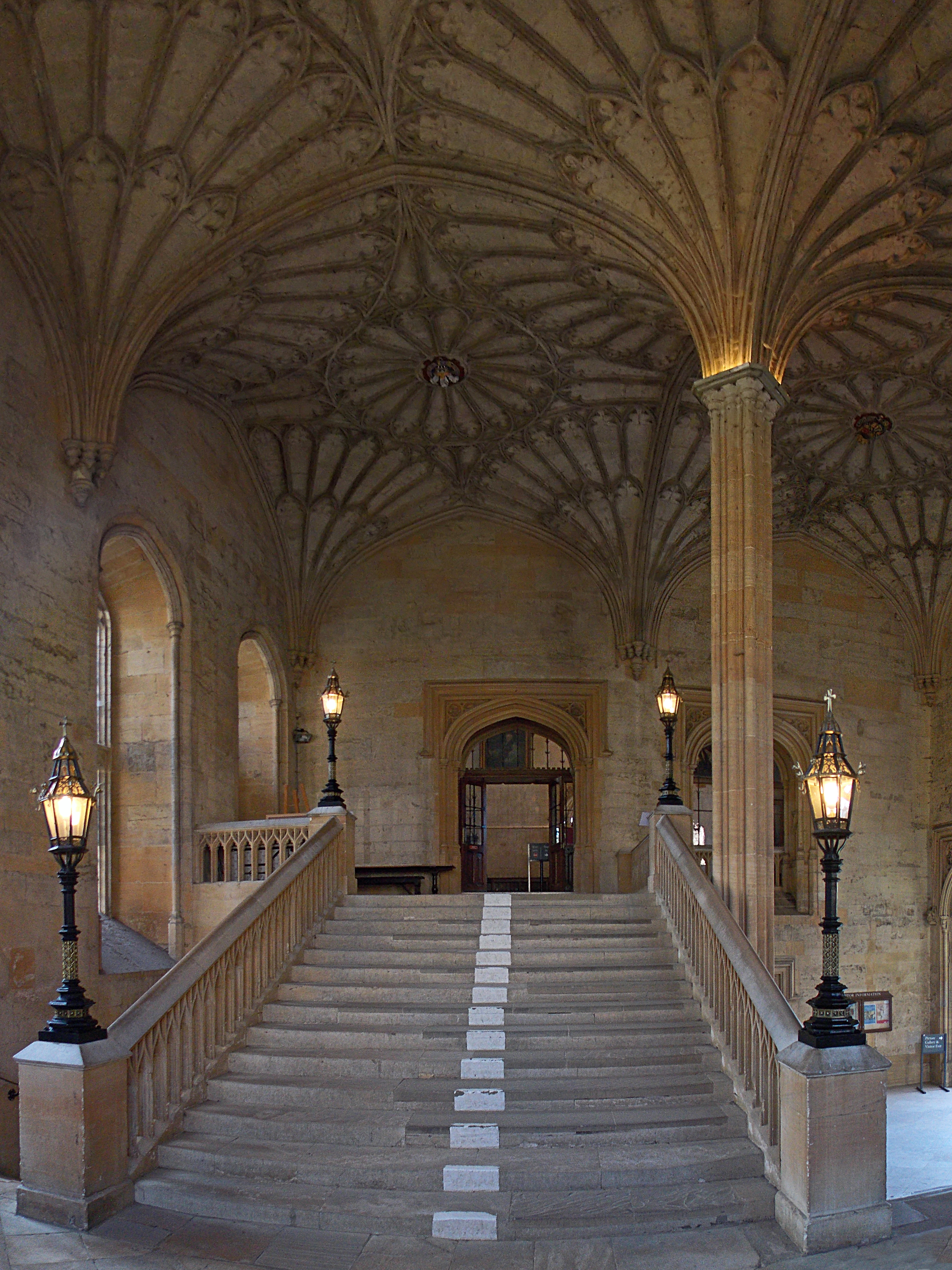 Christ Church College, Oxford. The staircase leading to the Great Hall